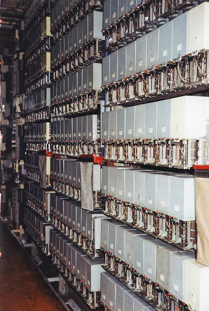 Strowger Telephone Exchange. Racks of Strowger 2-motion selectors. These were in use in Lords Telephone Exchange until the early 1990's when they were finally phased out, replaced by modern equipment. These were in the Tandem unit - see 905933 for more information about Lords Telephone Exchange.